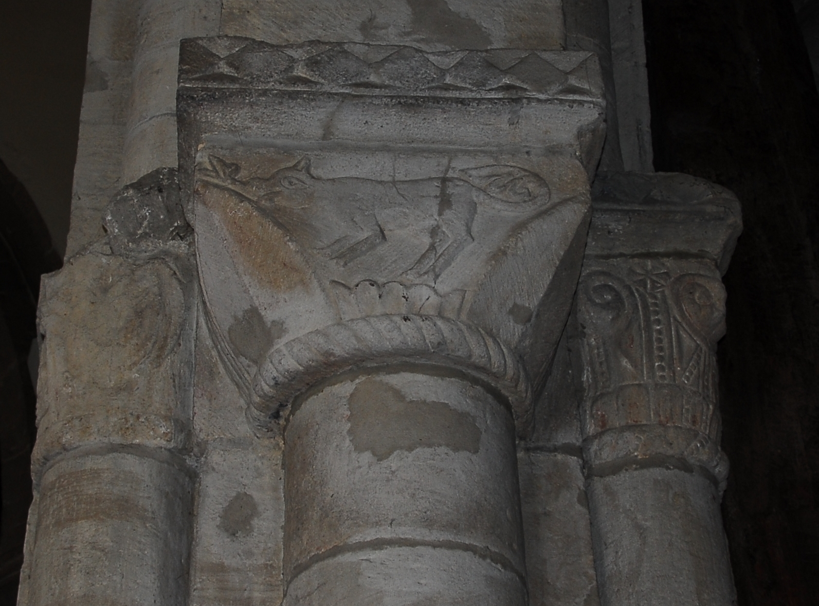 Norman stonework at the Church of St Lawrence, Alton